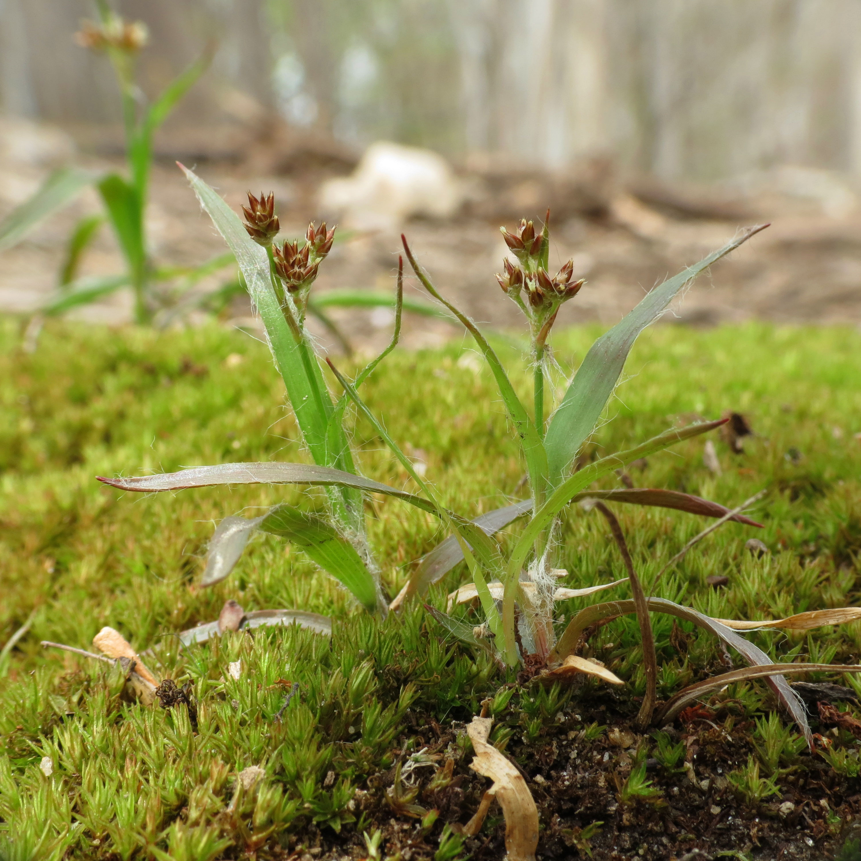 Luzula echinata. Rock Creek Park, Washington, D. C. 19 April 2014.